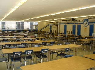 Cafeteria - This is one location students eat their lunch.